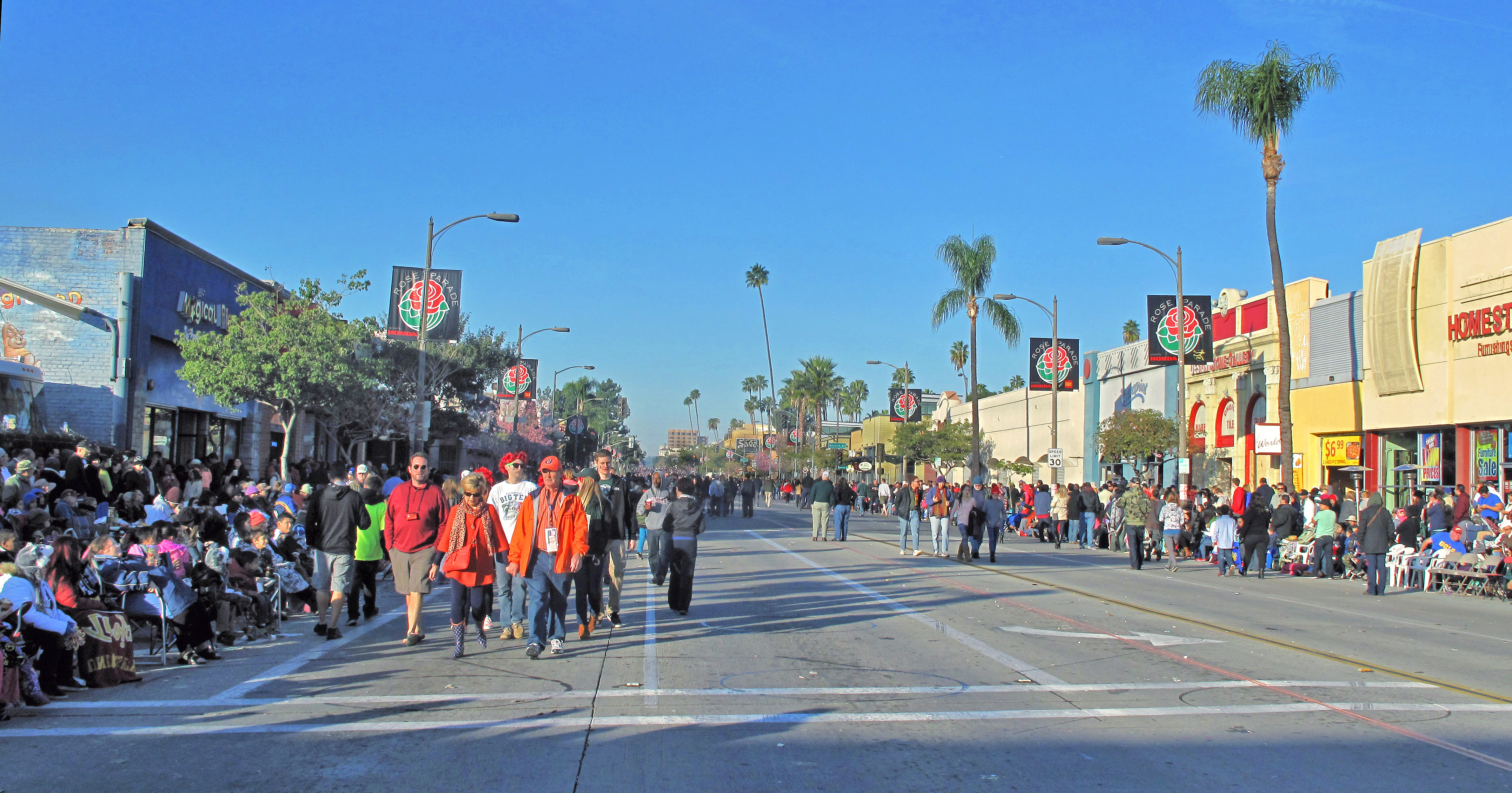 Crowds line Colorado Boulevard about 40 minutes before the parade will pass through.